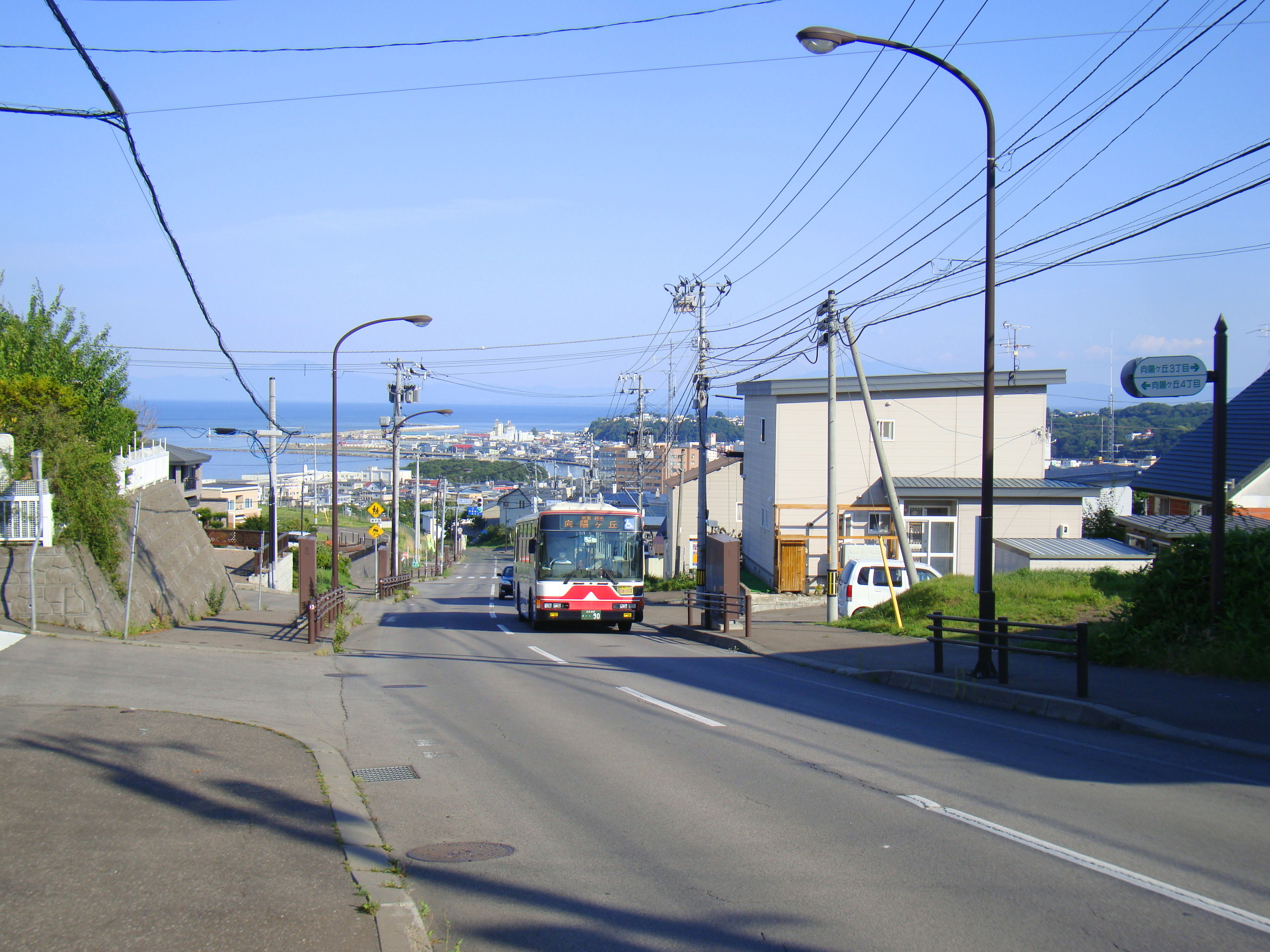 Abashiri city line